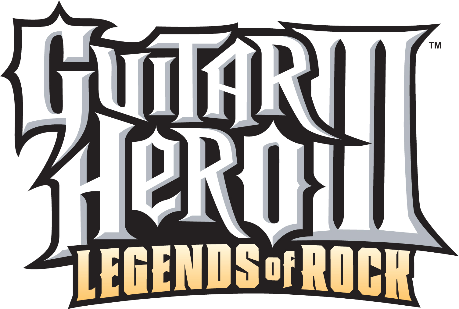 Logo of the videogame: Guitar Hero III: Legends of Rock. Logotipo del videojuego: Guitar Hero III: Legends of Rock.